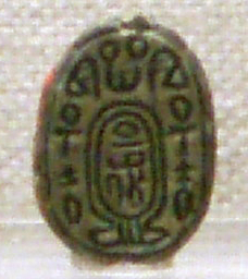 Scarab bearing the name of the Hyksos pharaoh Apophis. Made of steatite, from the time of the Second Intermediate Period. Now residing in the Museum of Fine Arts, Boston.